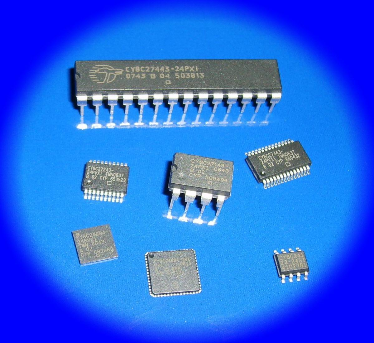 PSoC 1 Mixed Signal Array